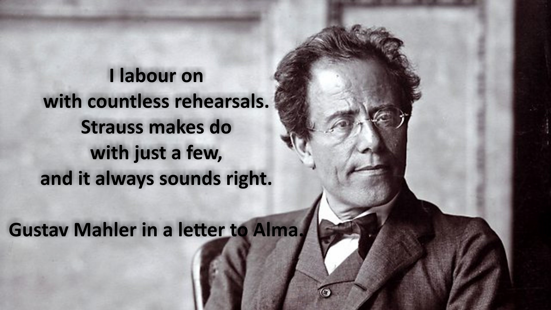 Photo with quote: "I labour on with countless rehearsals. Strauss makes do with just a few, and it always sounds right." (Gustav Mahler in a letter to Alma)